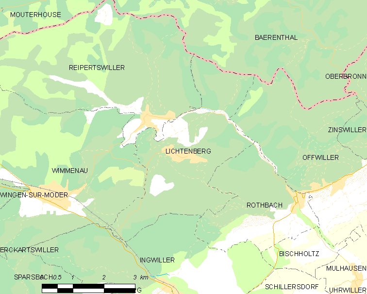 Map of French municipality